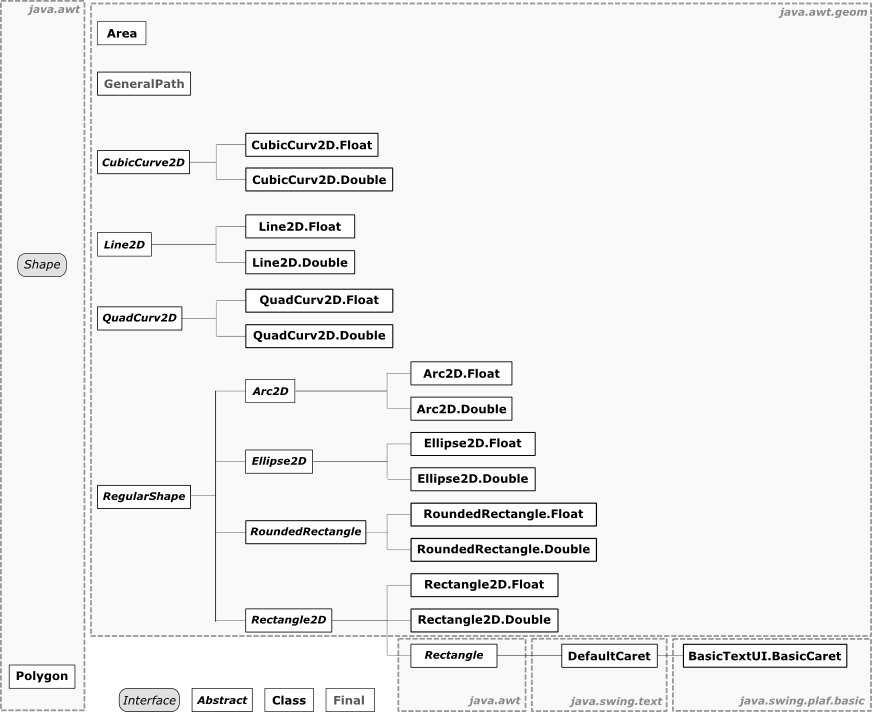 Java graphics2D Shape object hierarchy.